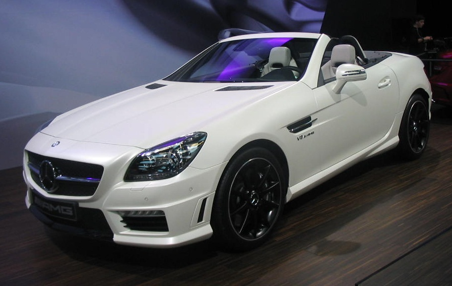 2012 Mercedes-Benz SLK-Class AMG photographed in Montreal, Quebec, Canada at the 2012 Montreal International Auto Show.